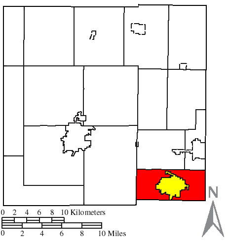 Made by the US Census and modified by myself